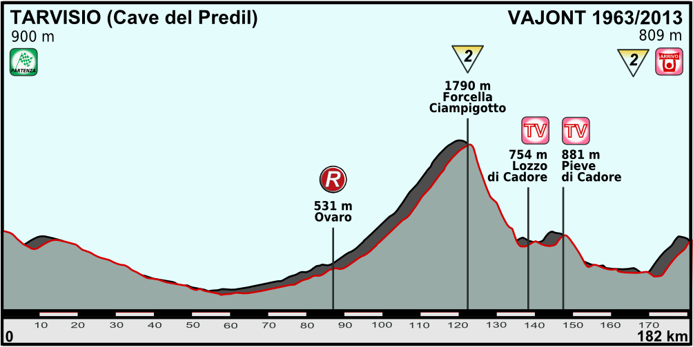 Giro d'Italia 2013 - stage profile # 11